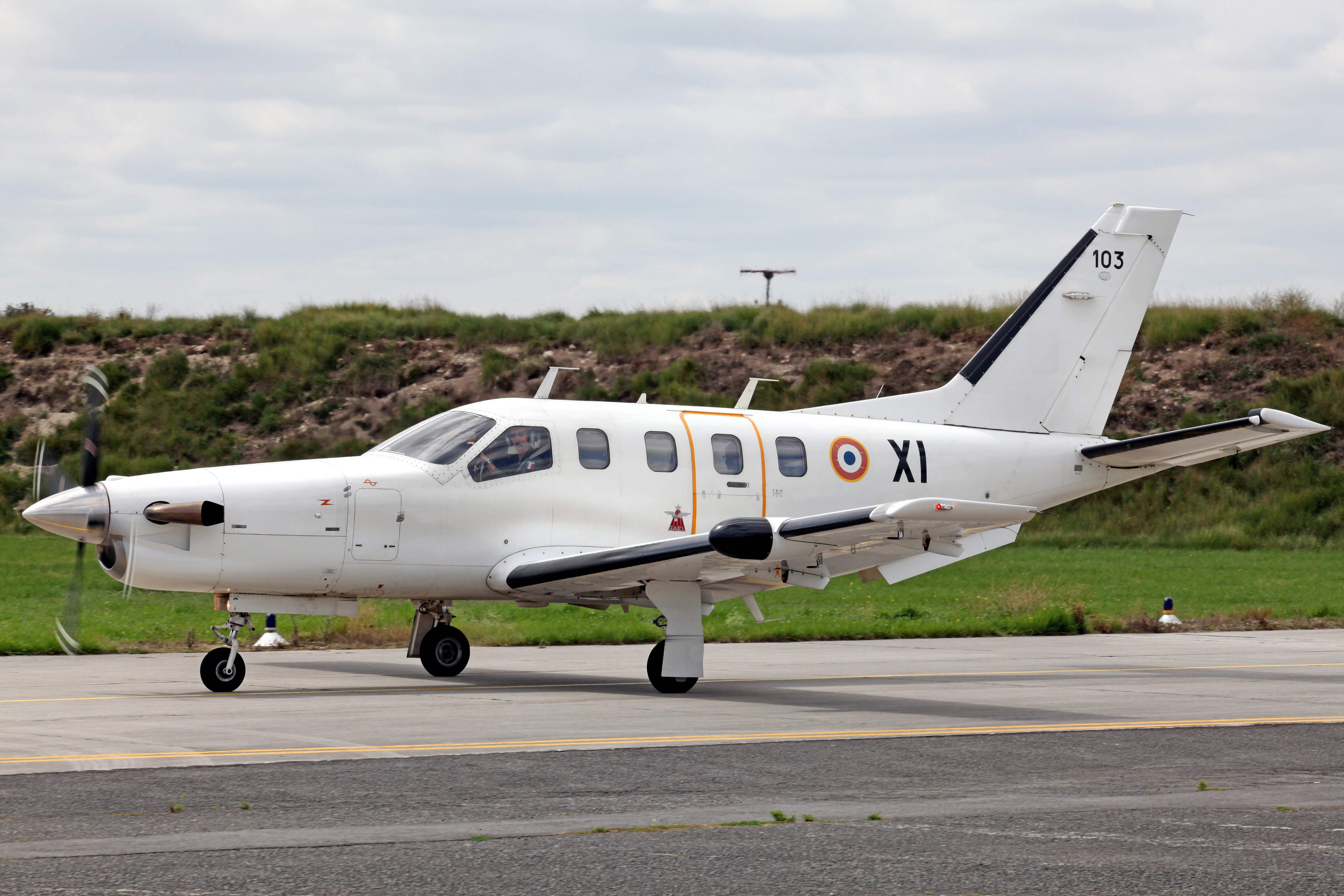 Socata TBM 700 French Air Force